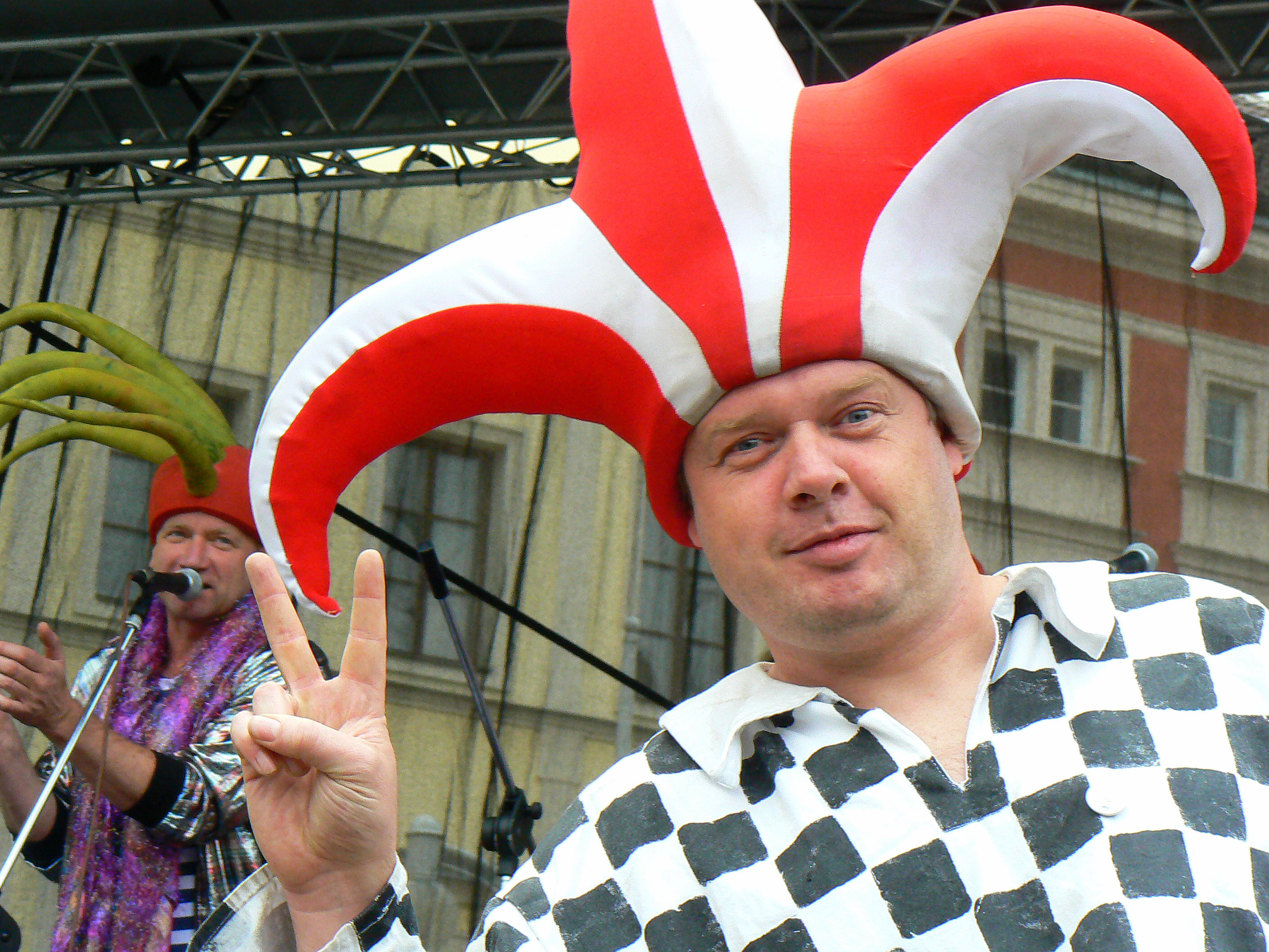 Kašpárek (Clown) from České Budějovice band